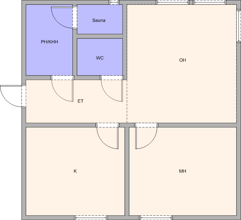 The picture shows an example of a building floor plan, with room titles in Finnish. I created the picture.